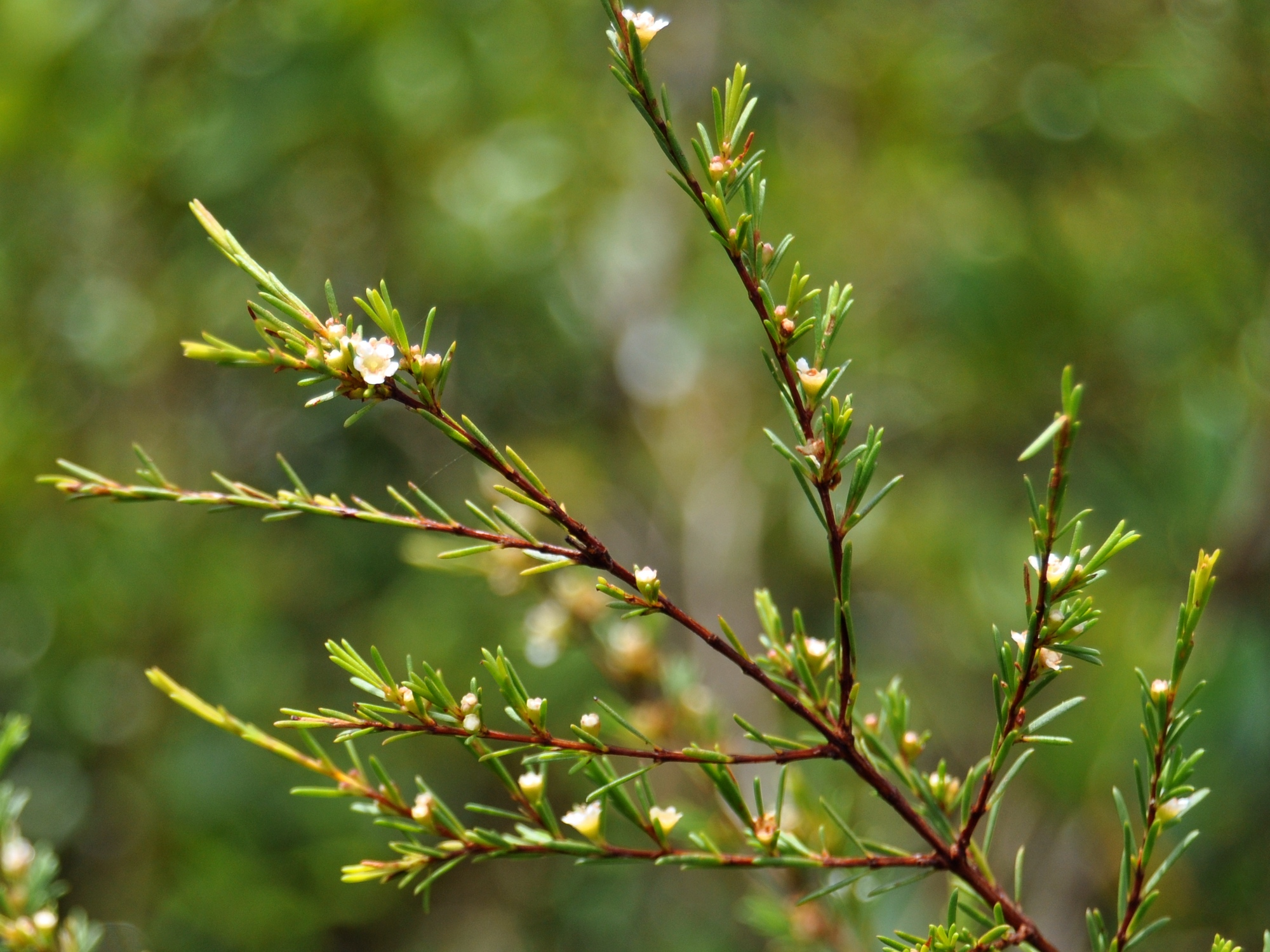 Baeckea frutescens flos et folii. From Belitong, South Sumatra, Indonesia.